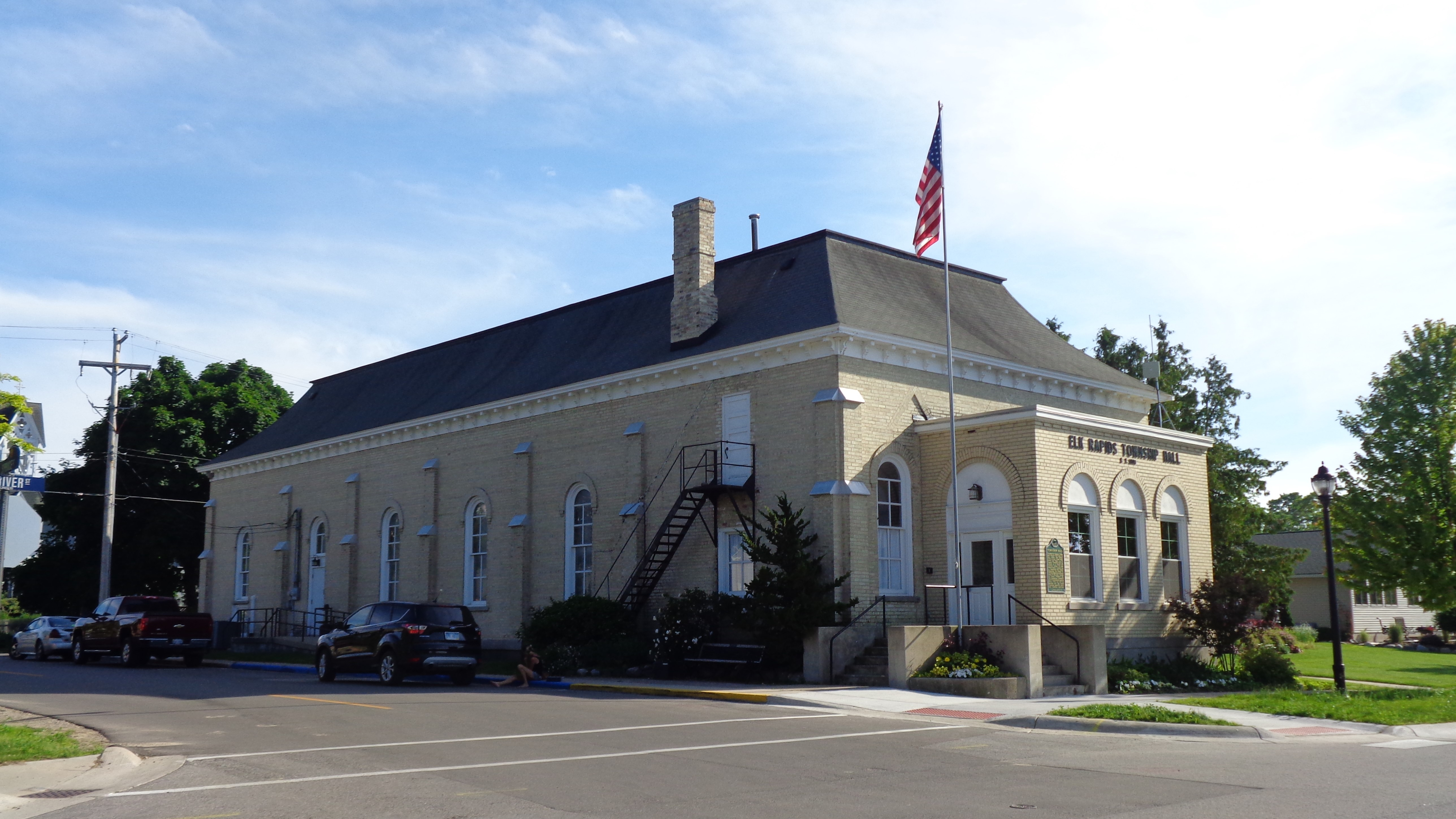 Depicted place: Elk Rapids Township Hall